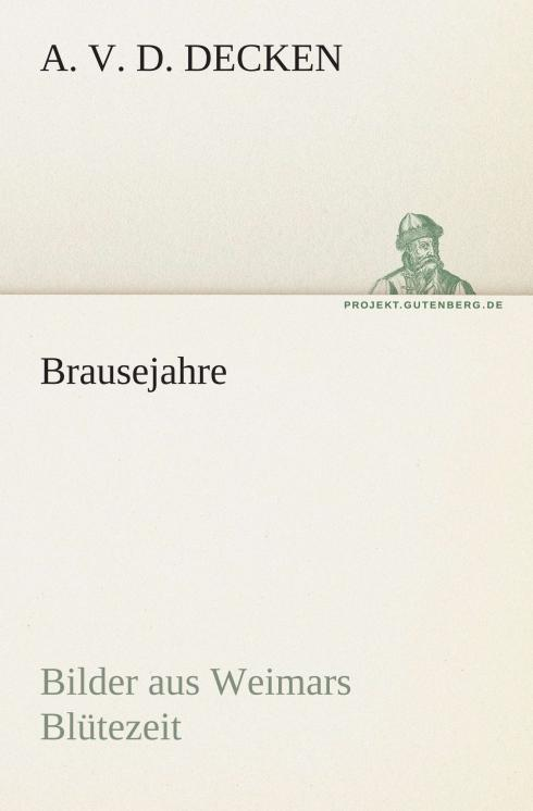 Brausejahre Book